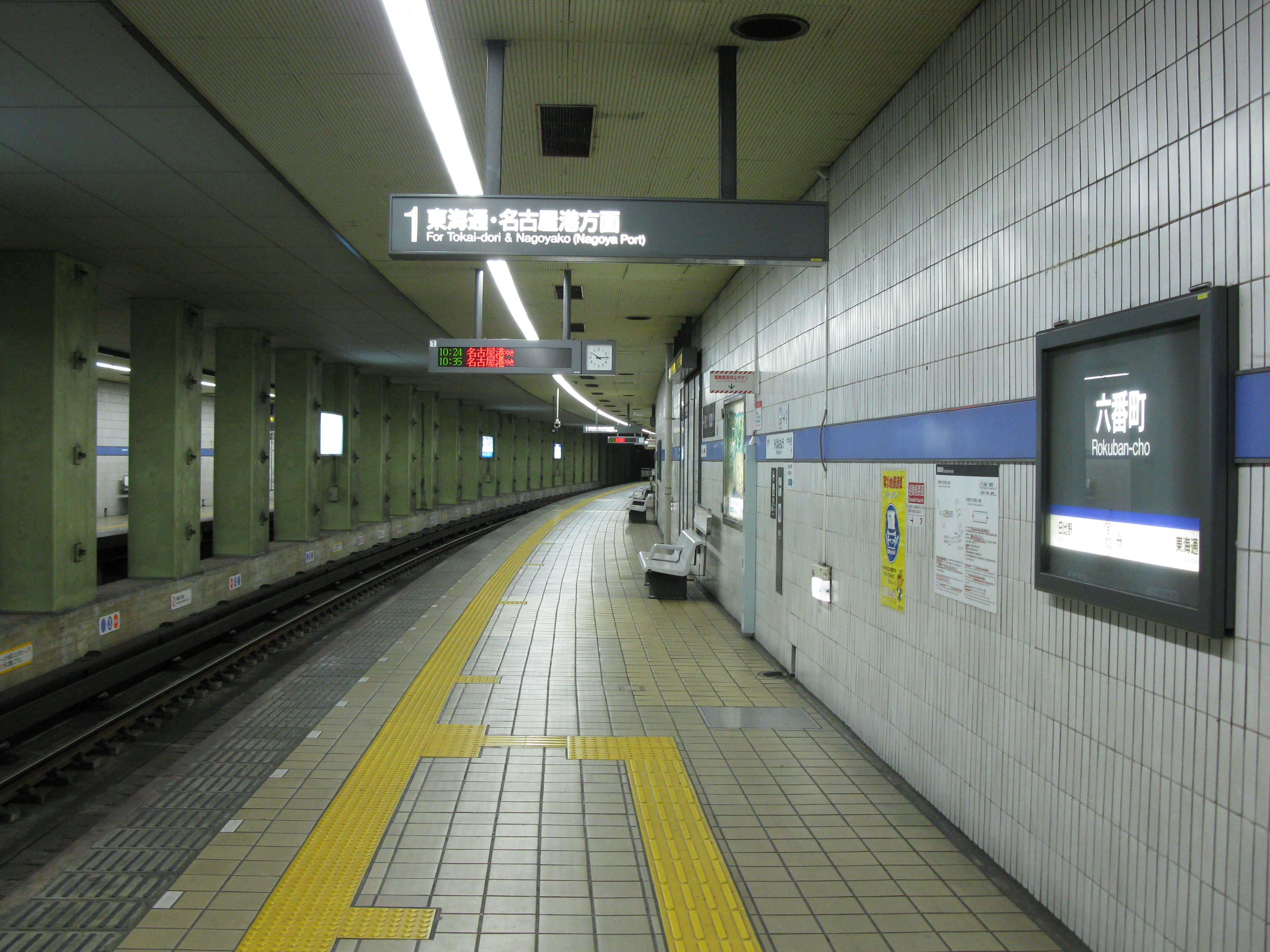 Rokuban-chō Station platform (Nagoya Municipal Subway Meikō Line)